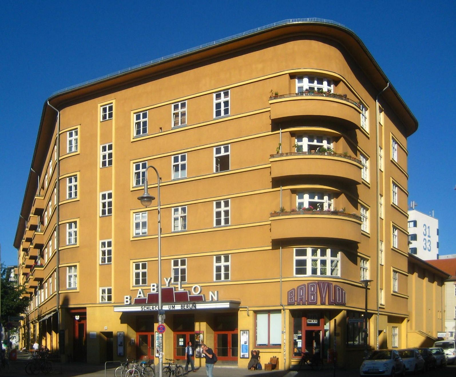 The Cinema Babylon at Rosa-Luxemburg-Straße No. 30 in Berlin-Mitte. It was built in 1927 in connection with a residential building to a design by Hans Poelzig. The whole complex has been designated as a historic landmark.